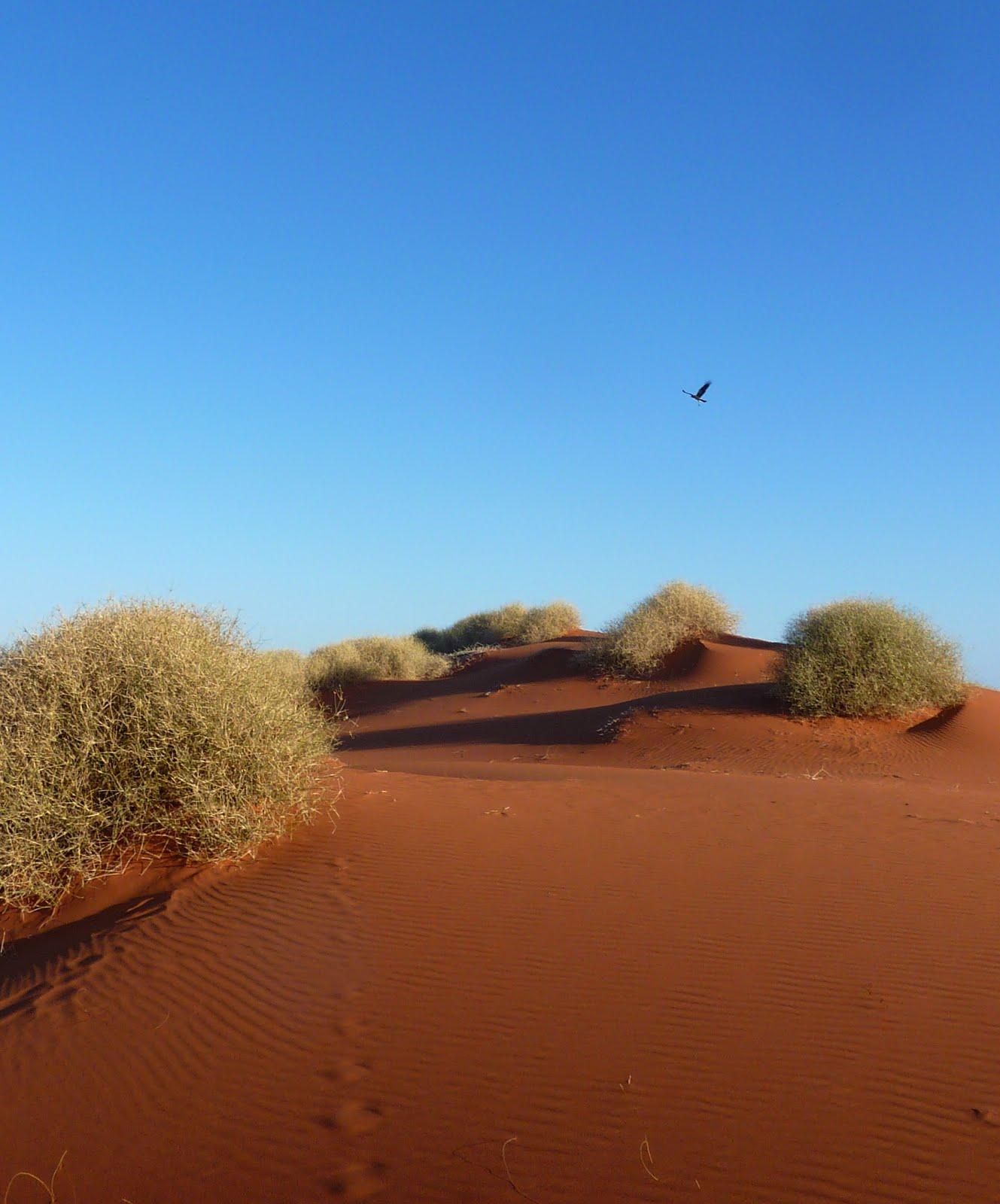 Spotted Harrier (Circus assimilis) quarters territory along a dune top near Andado, Northern Territory, Australia